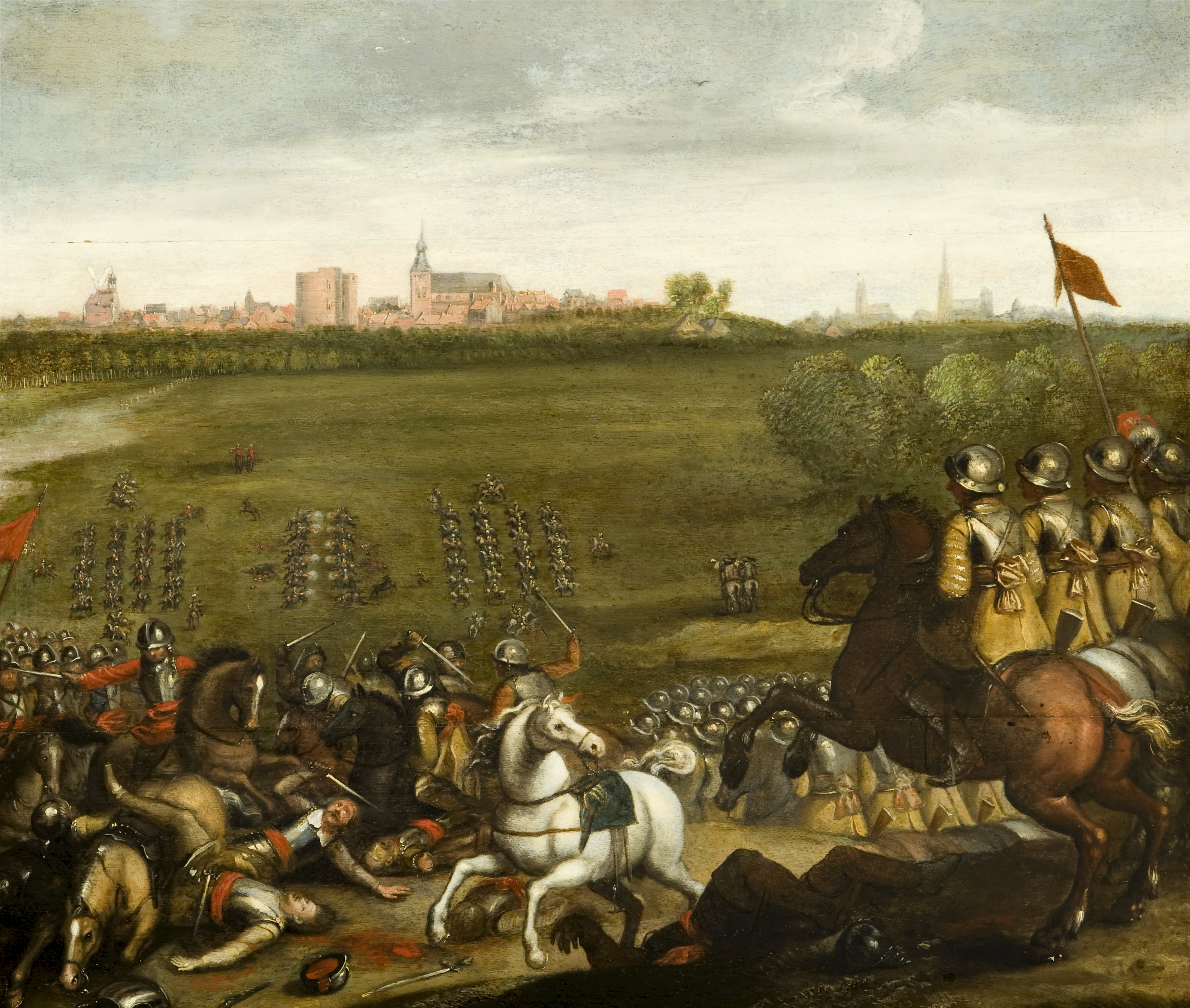 Attack on the town of Hattem on August 13th, 1629. On August 13th, 1629, the inhabitants of Hattem helped by gunners from Amsterdam, were able to resist the attack of the Spanish regiment under command of count Salazar. The Spanish eventually withdrew. The white horse on the foreground shows the confusion of a horse that has lost its rider. Voerman Museum, Hattem , inv./cat.nr 2235